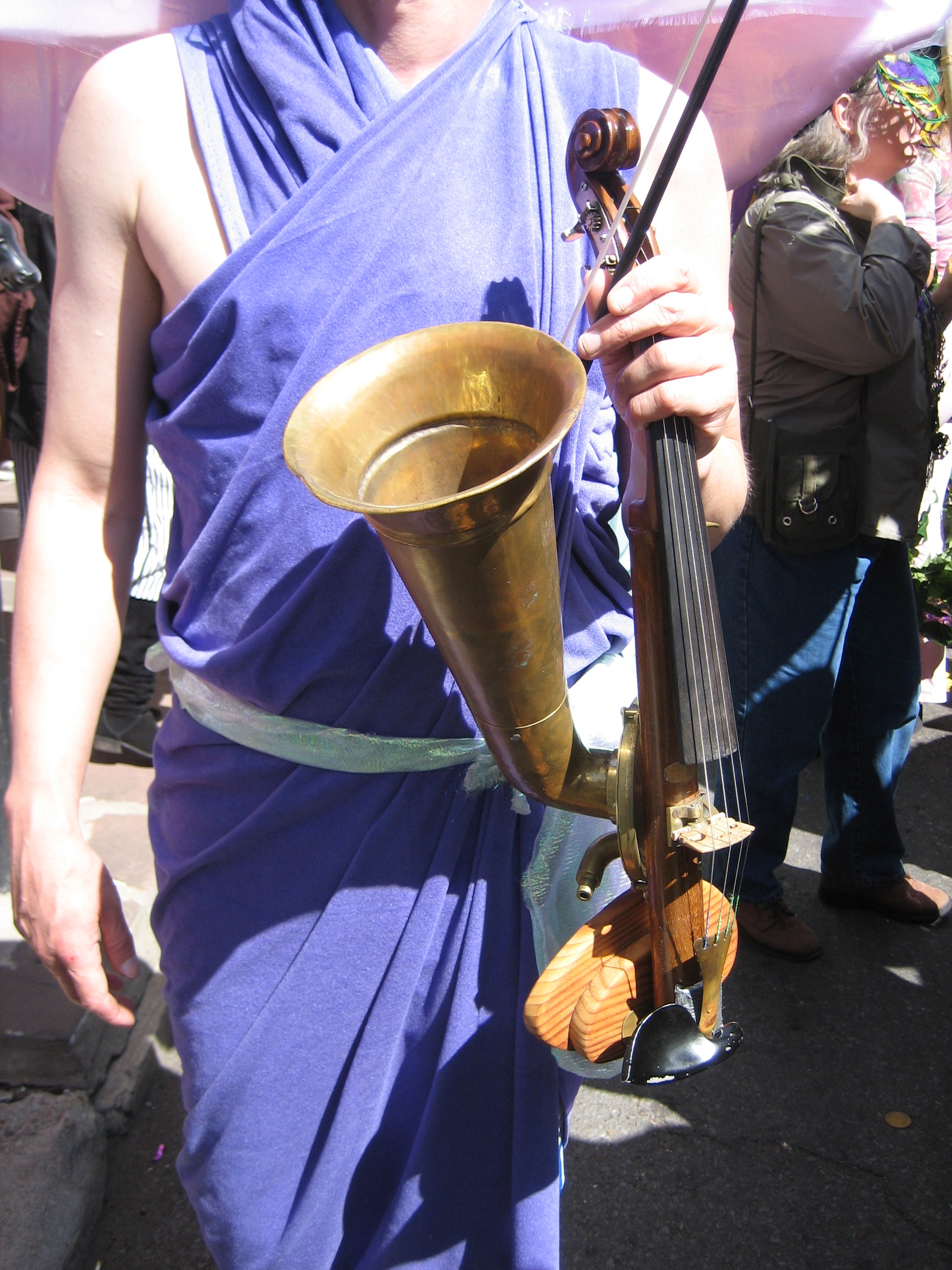 Stroh violin played by musican at New Orleans Mardi Gras